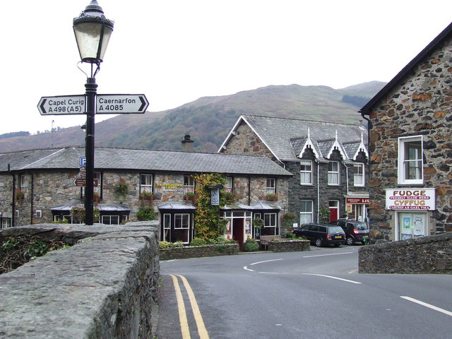 Tanronnen Inn Beddgelert Tanronnen Inn as seen from the bridge Beddgelert